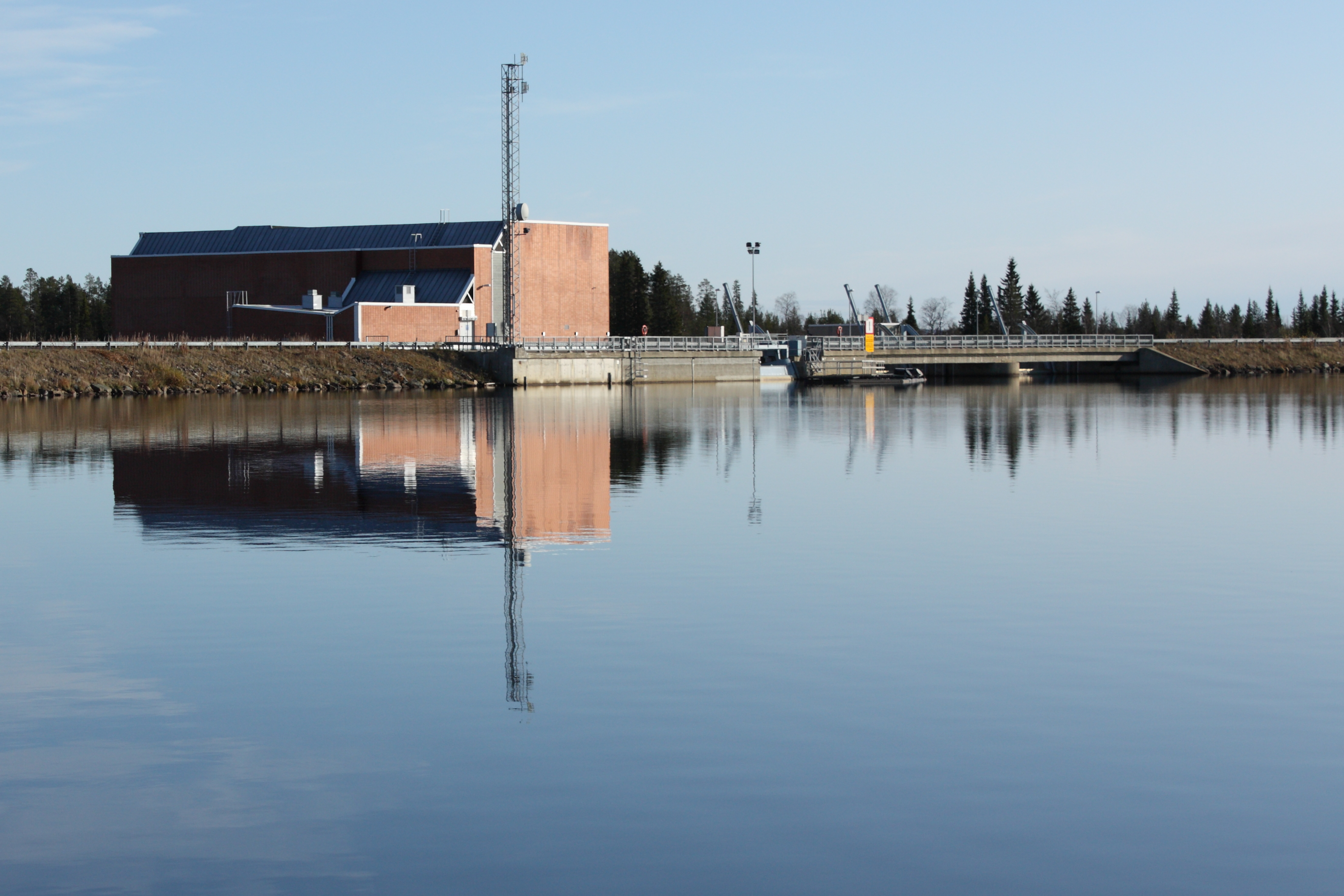 Kokkosniva hydroelectic power plant, in Pelkosenniemi, Finland.